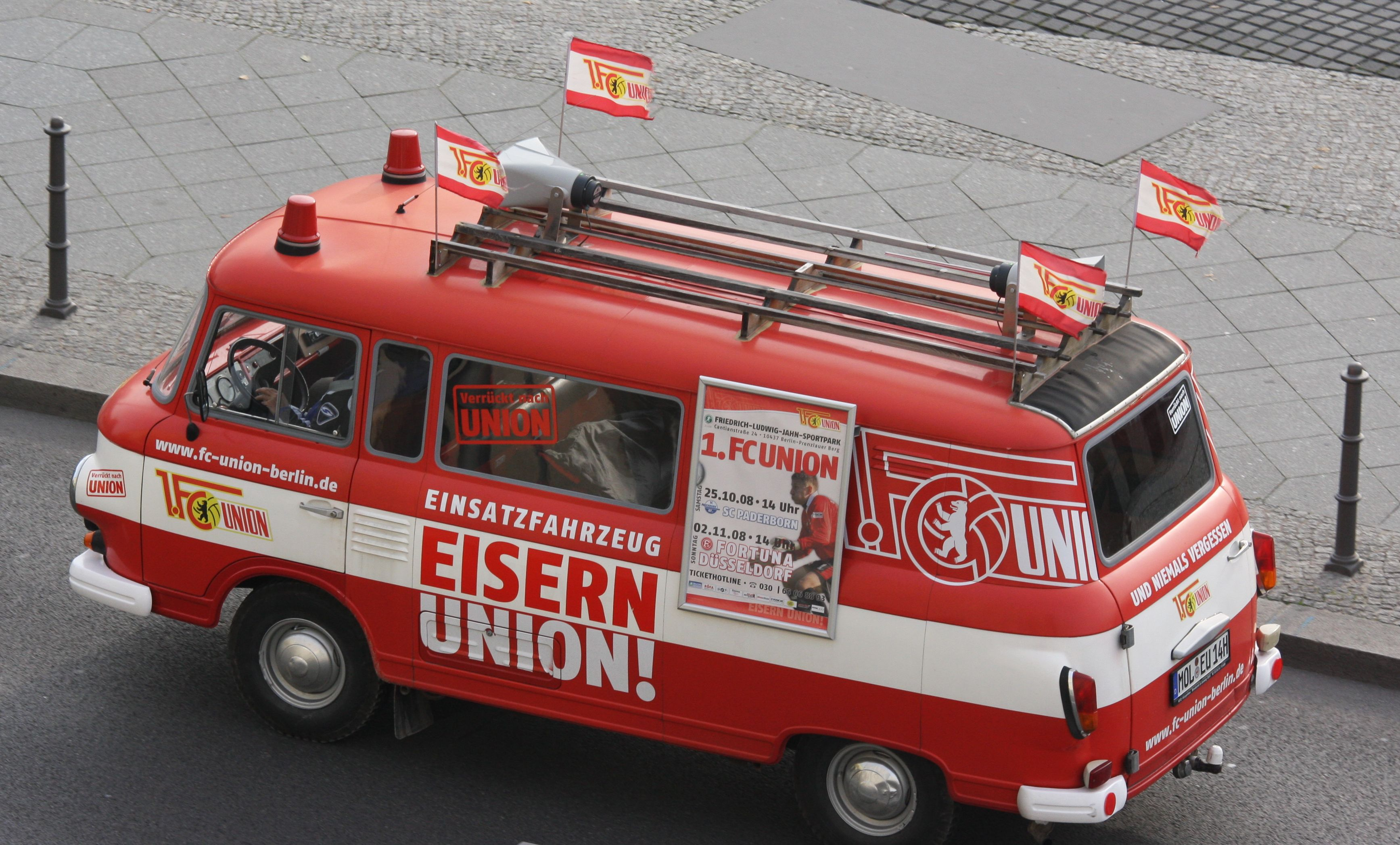 Van of the football club 1.FC Union Berlin